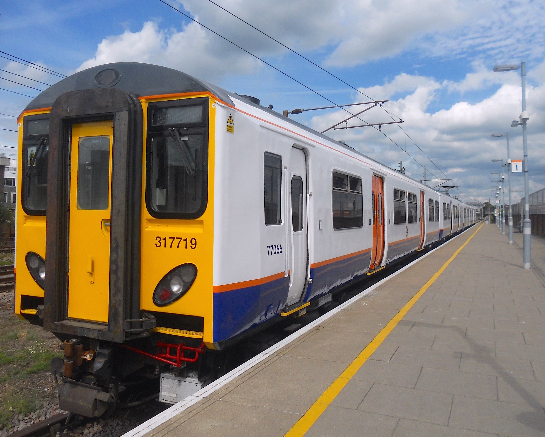 London Overground Class 317/7 No. 317719 at Romford